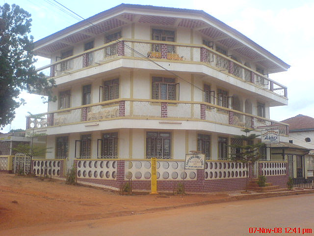 Sinyanga Hotel, Songea, Tanzania